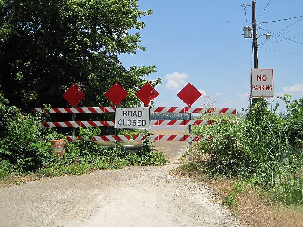 Western terminus of TN 59 in Gilt Edge, Tennessee.